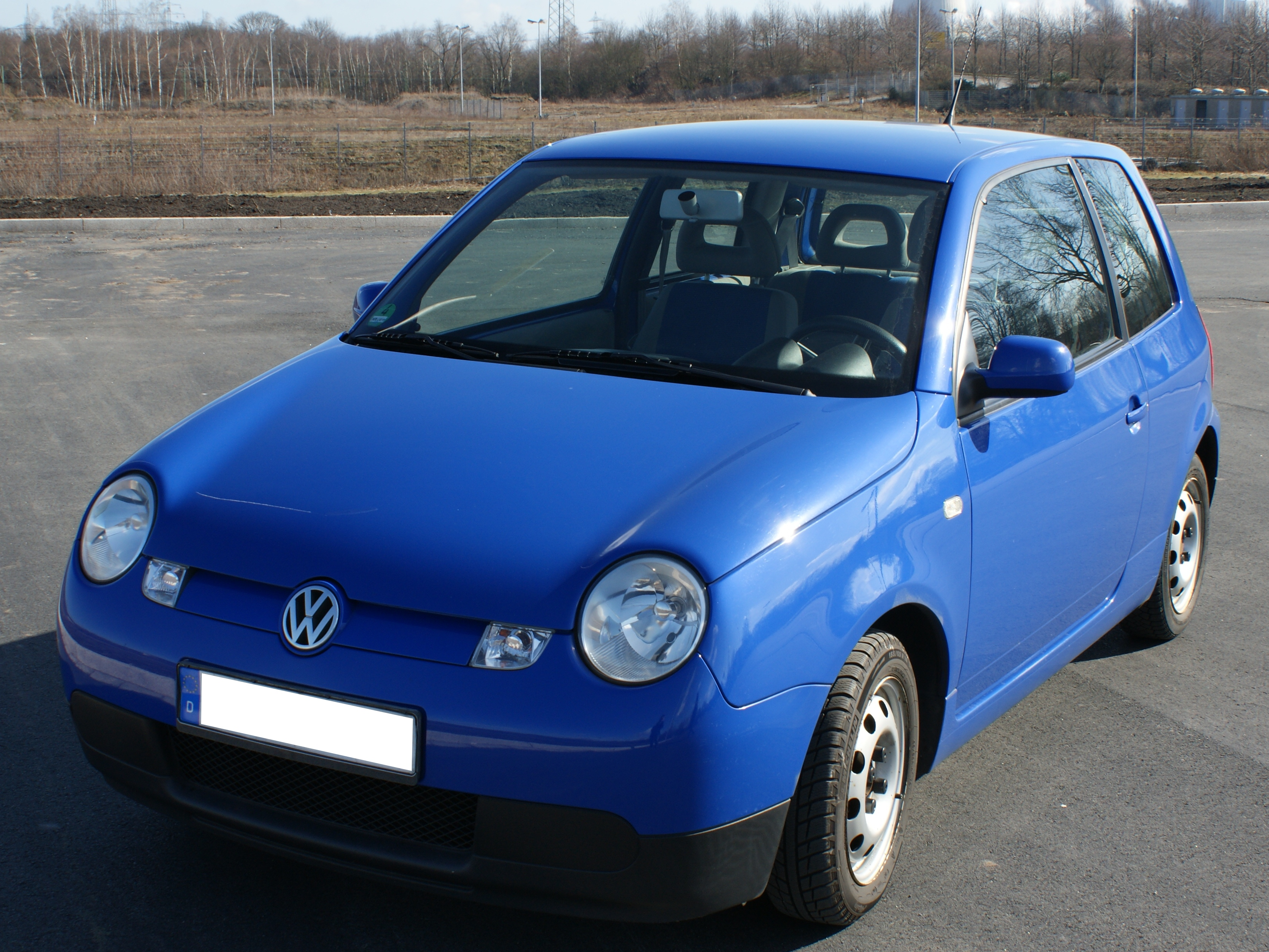 Front view of a VW Lupo 3L TDI.